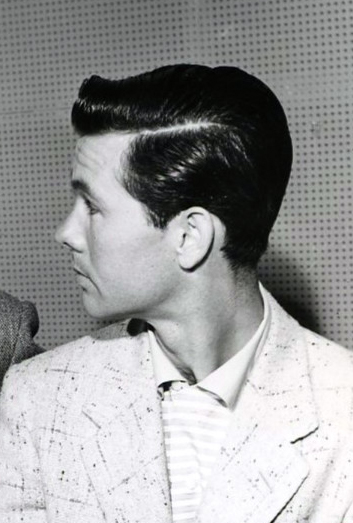 Crop of young Johnny Carson as the guest on his television program The Jack Benny Show. Benny invited the young comedian to appear on his program in 1955. Carson performed and also received advice from Benny, who predicted that he would be a success as a comedian during this show.